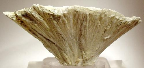 Ulexite Locality: Boron, Kramer District, Kern County, California, USA (Locality at ) An AMAZING flower-shaped, light gray ulexite specimen from Boron, California. This is one of the more fascinating shapes, that you will see in the mineral kingdom and is uncommon for Boron. 8.5 x 6.8 x 3.9 cm